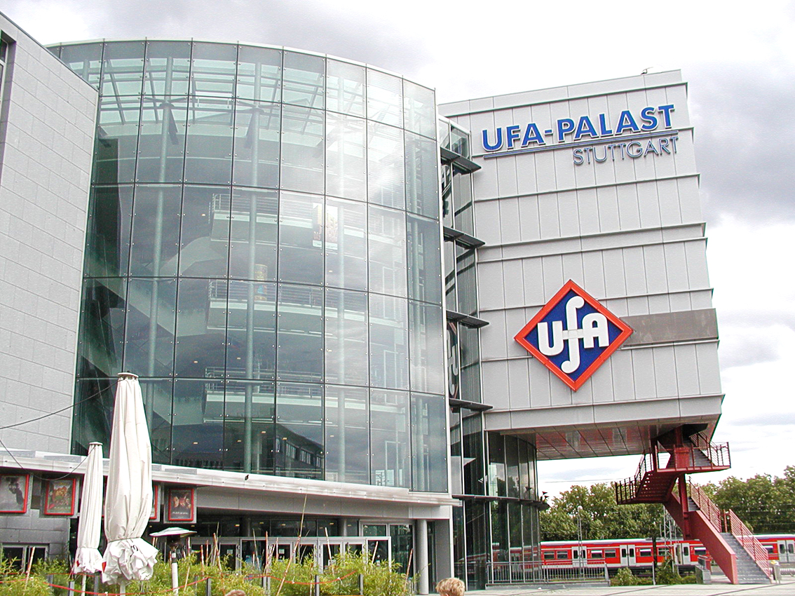 Das Kino Ufapalast in Stuttgart